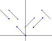 Example of a lower semi-continuous function.